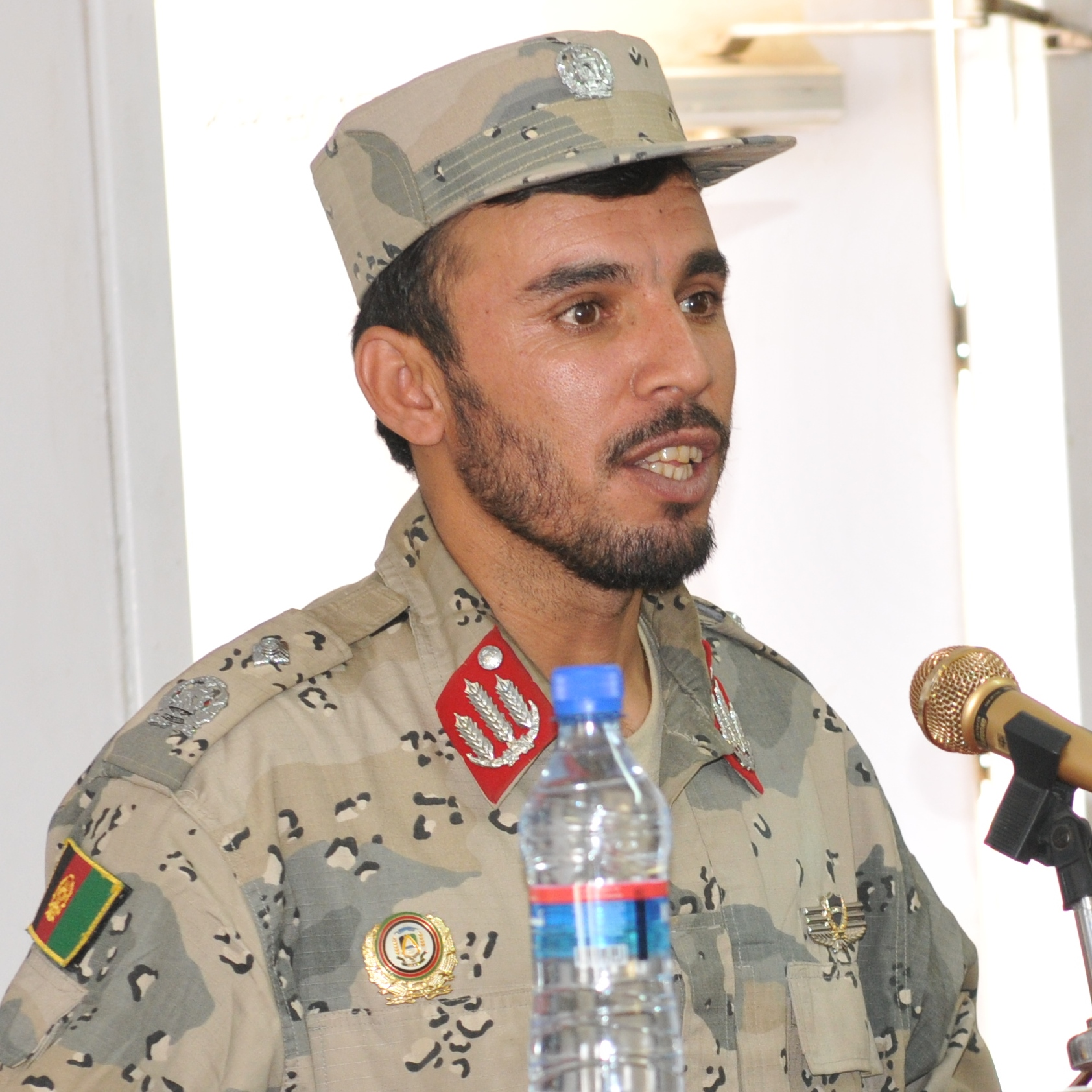 Afghan Brig. Gen. Abdul Raziq, Kandahar provincial chief of police, addresses 138 new Afghan Uniform Police noncommissioned officers during their graduation ceremony at the Kandahar Regional Training Center in southern Afghanistan, Jun. 7, 2012. The new AUP NCOs completed six weeks of literacy training followed by eight weeks of police specific and leadership lessons. (U.S. Air Force photo by Tech. Sgt. Renee Crisostomo/Released)